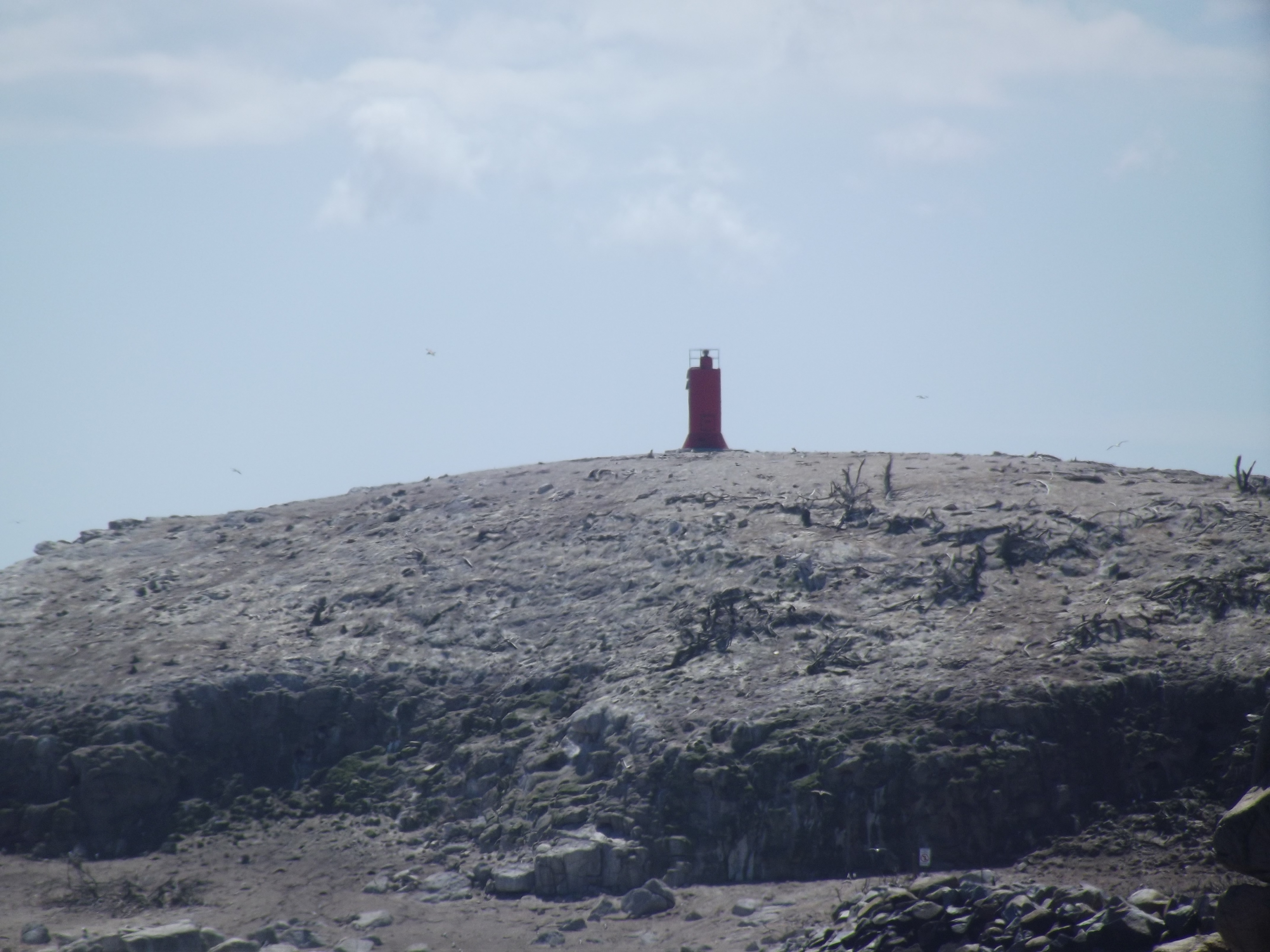 Faro de Playa el Canelo This is a photo of a national monument in Chile: 133